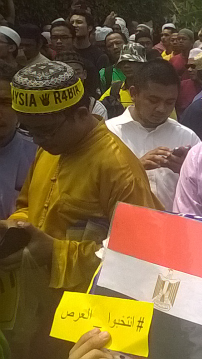 The photo, taken at a Malaysian demonstration for Egypt, features the popular hashtag written in Arabic